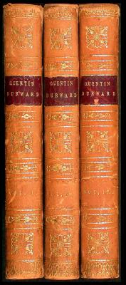 Bindings of Quentin Durward, published in 1823.